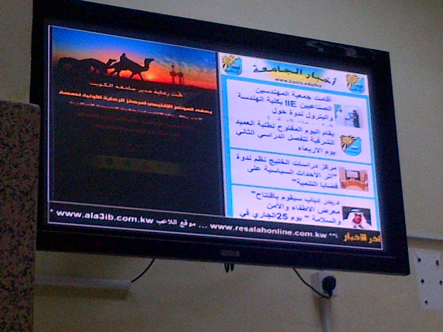 اعلانات